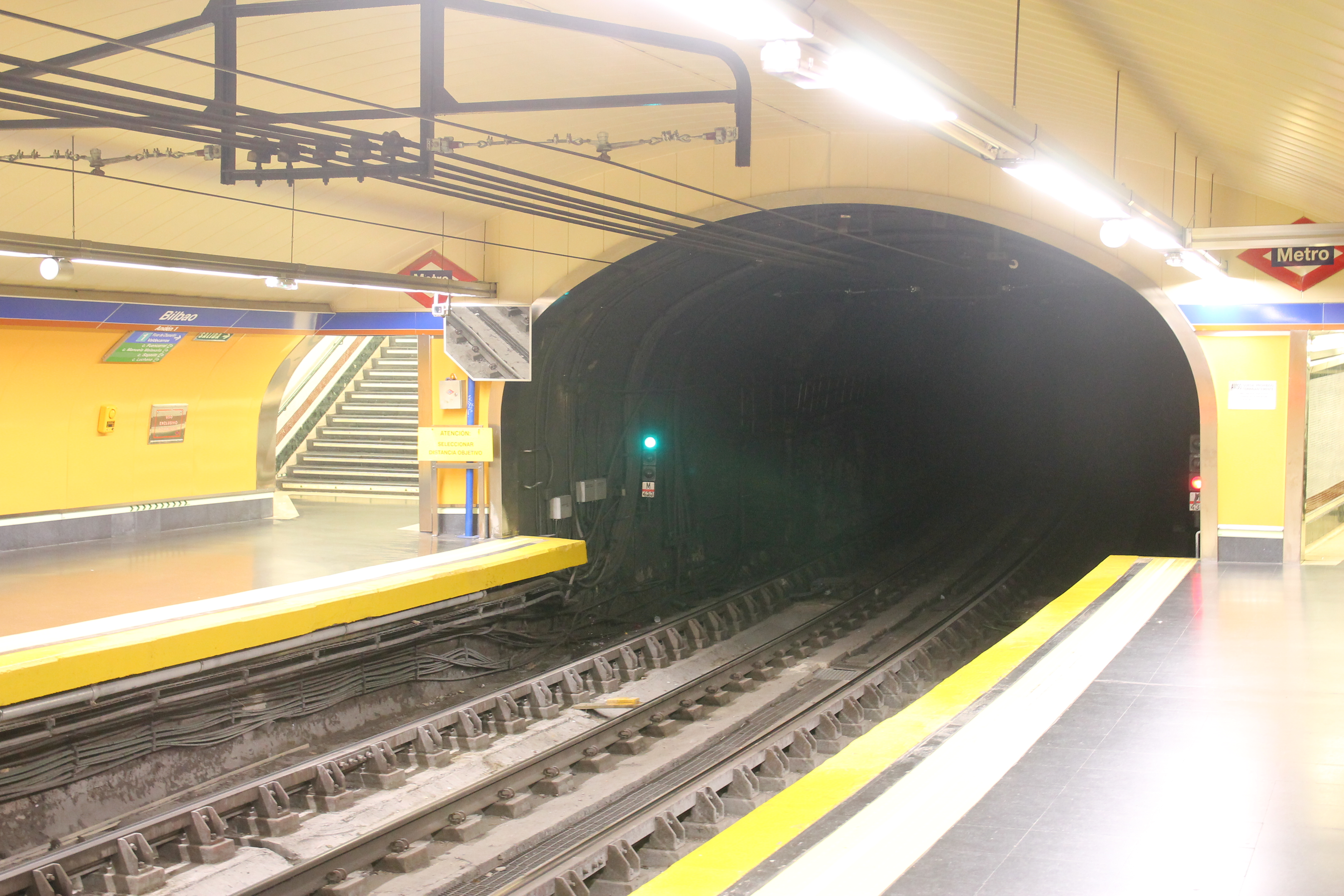 Estación de Bilbao